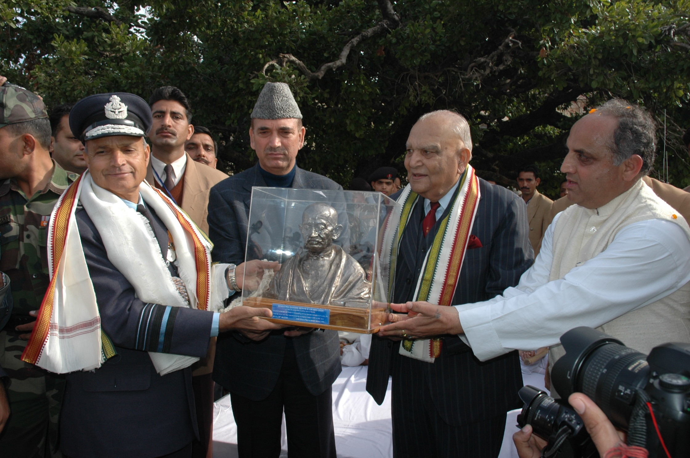 CM Azad Sabh & Governor Gen Sinha presenting award to Air Force officer